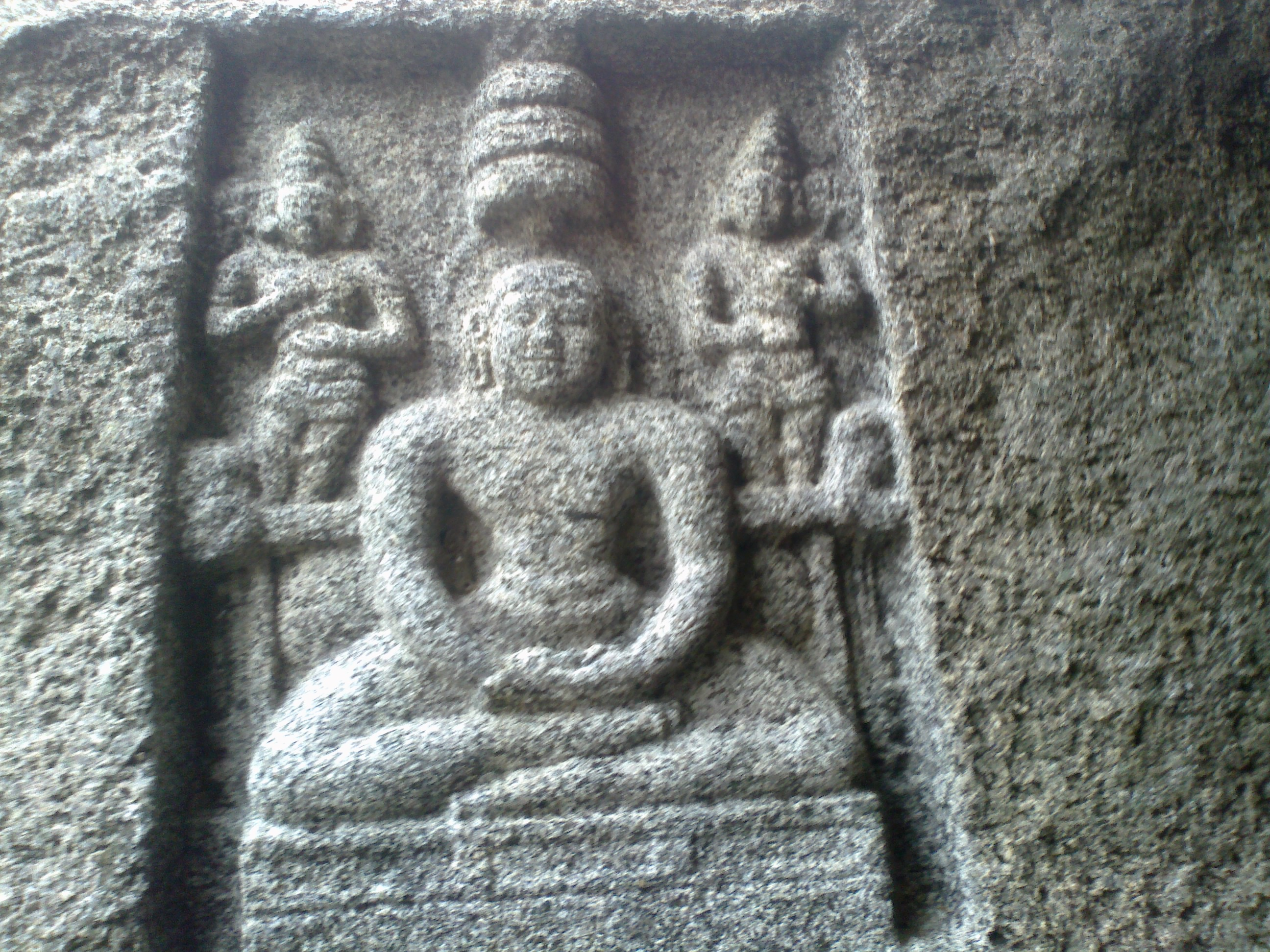 Mahavirar Andimalai